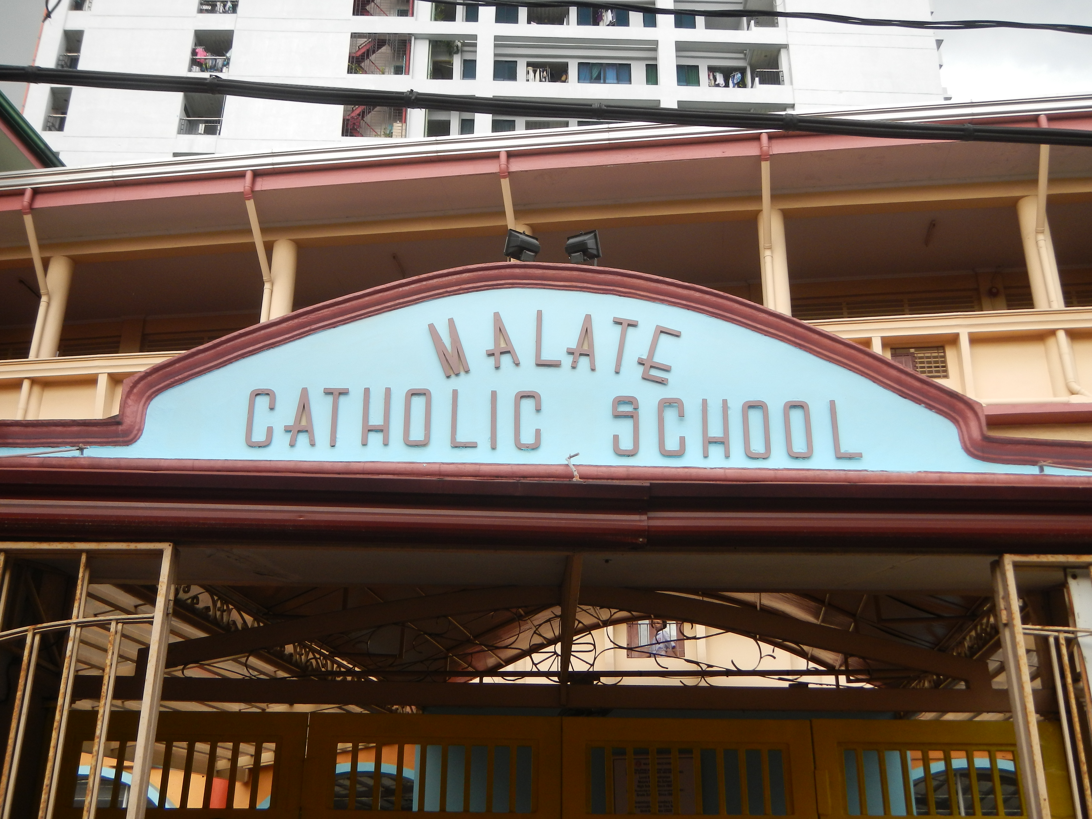 Malate Catholic School (along corner M. H. del Pilar Street corner Mabini Street corner San Andres Street Mabini Street corner San Andres Street from Roxas Boulevard (Malate, Manila section) of Roxas Boulevard in the List of roads in Metro Manila, Major roads in Manila, Malate, Manila (in the List of barangays of Metro Manila, Legislative districts of Manila Barangays 669, Zone 72, 698, 699, Zone 76, 700, 701, Zone 77, 719, 720 & 721, Zone 78, District V, Malate, Manila, City of Manila).